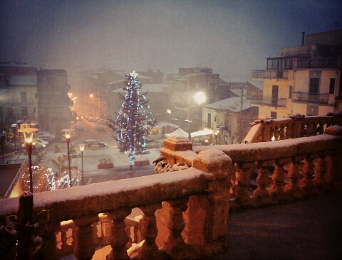 Landscape snowy evening event for Belmonte